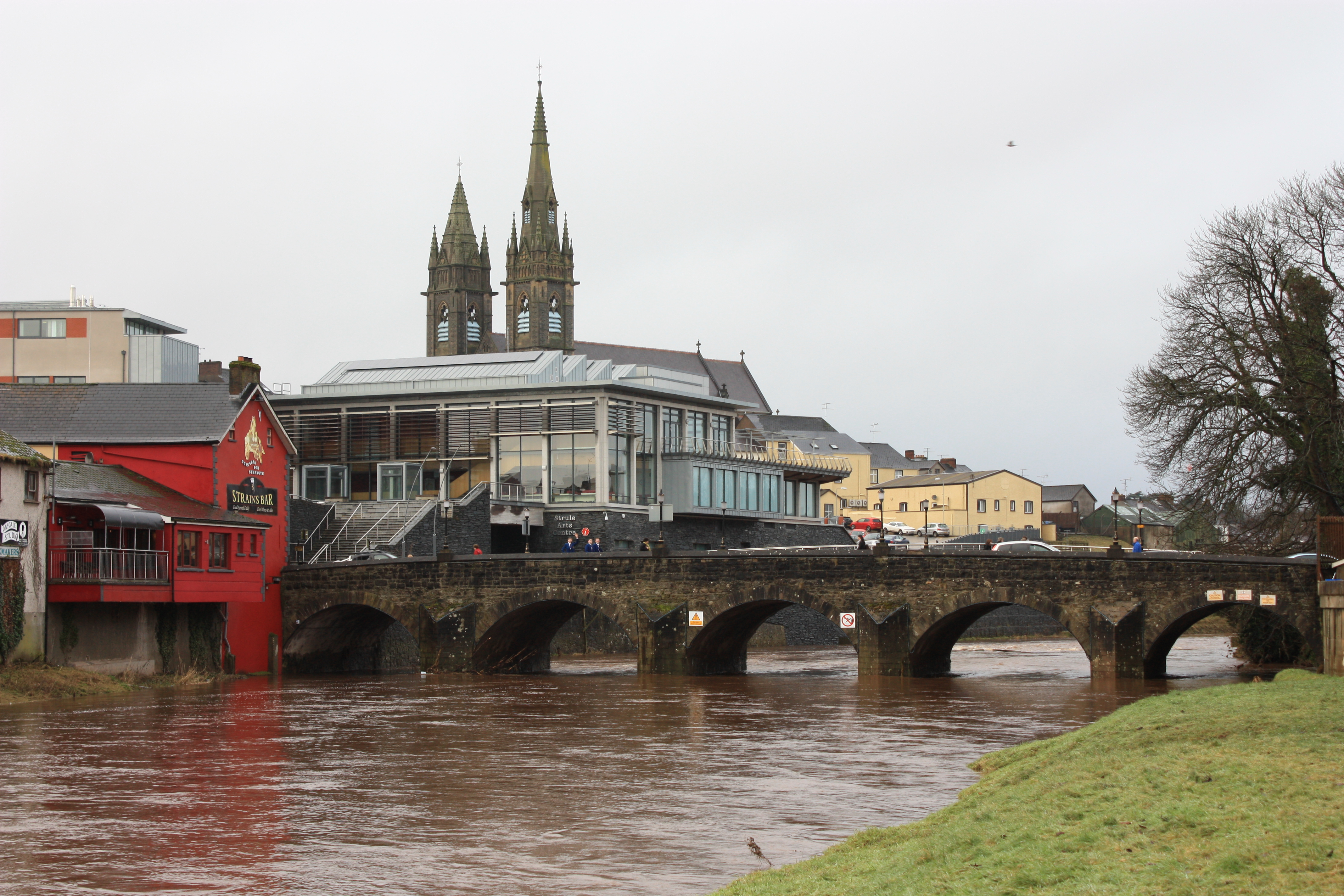 Omagh (from banks of River Strule), County Tyrone, Northern Ireland, January 2010